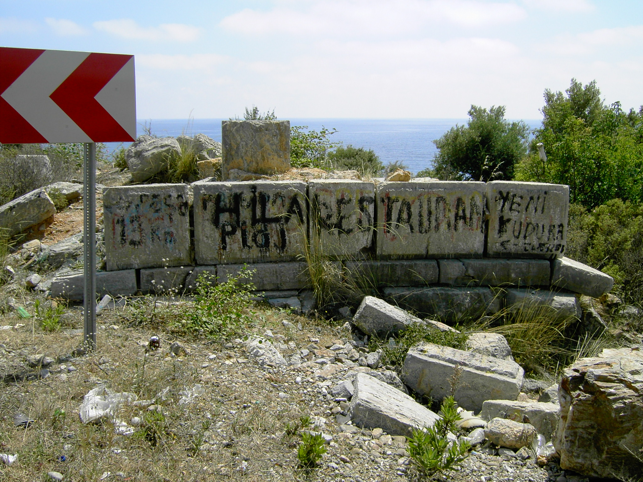 Ruins of a temple(?) next to the Antalya-Mersin highway in the ancient city of Iotape